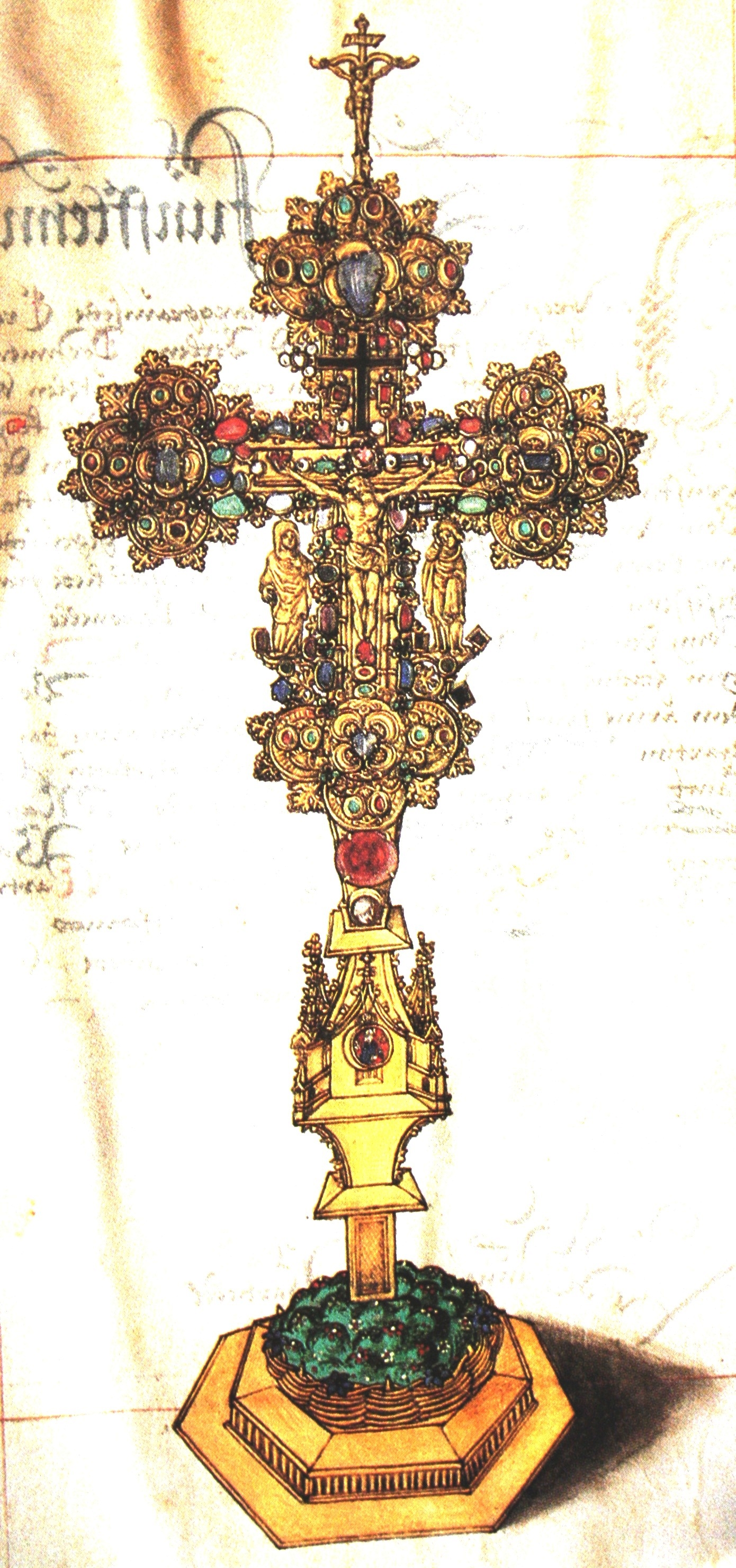 Gothic Reliquiary Cross